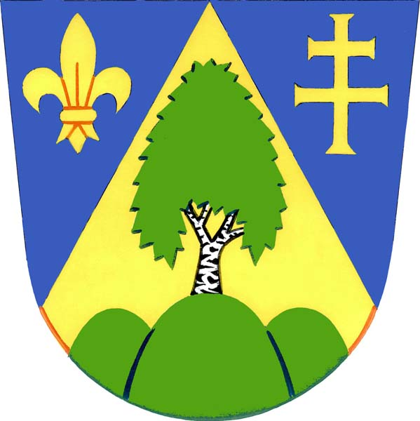 Emblem of municipal Březová uh (Czech republik)